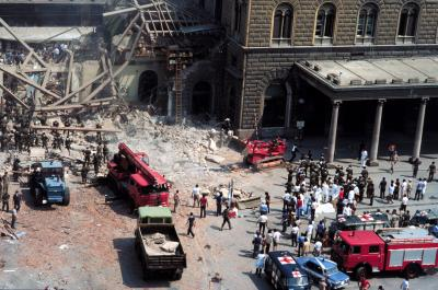 Bombing at Bologna at August 2nd 1980